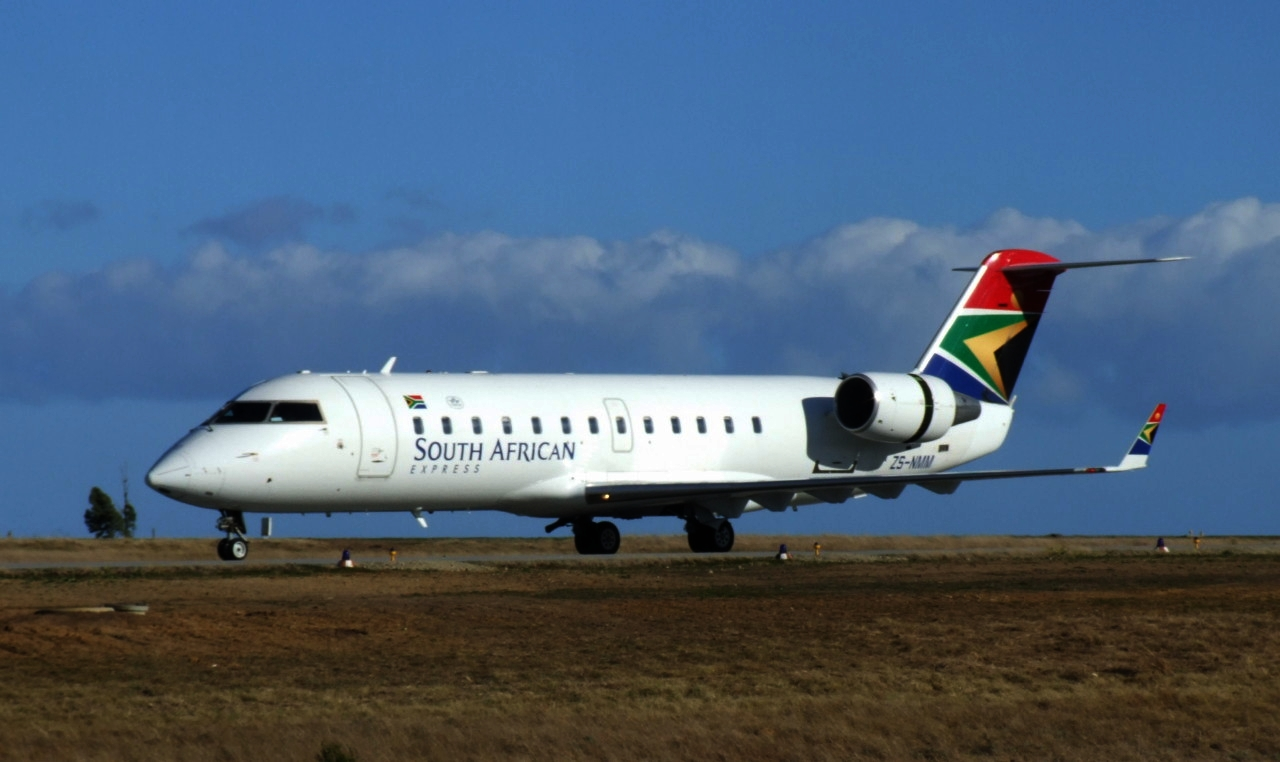 SA Express CL600 2B19 ZS-NMM